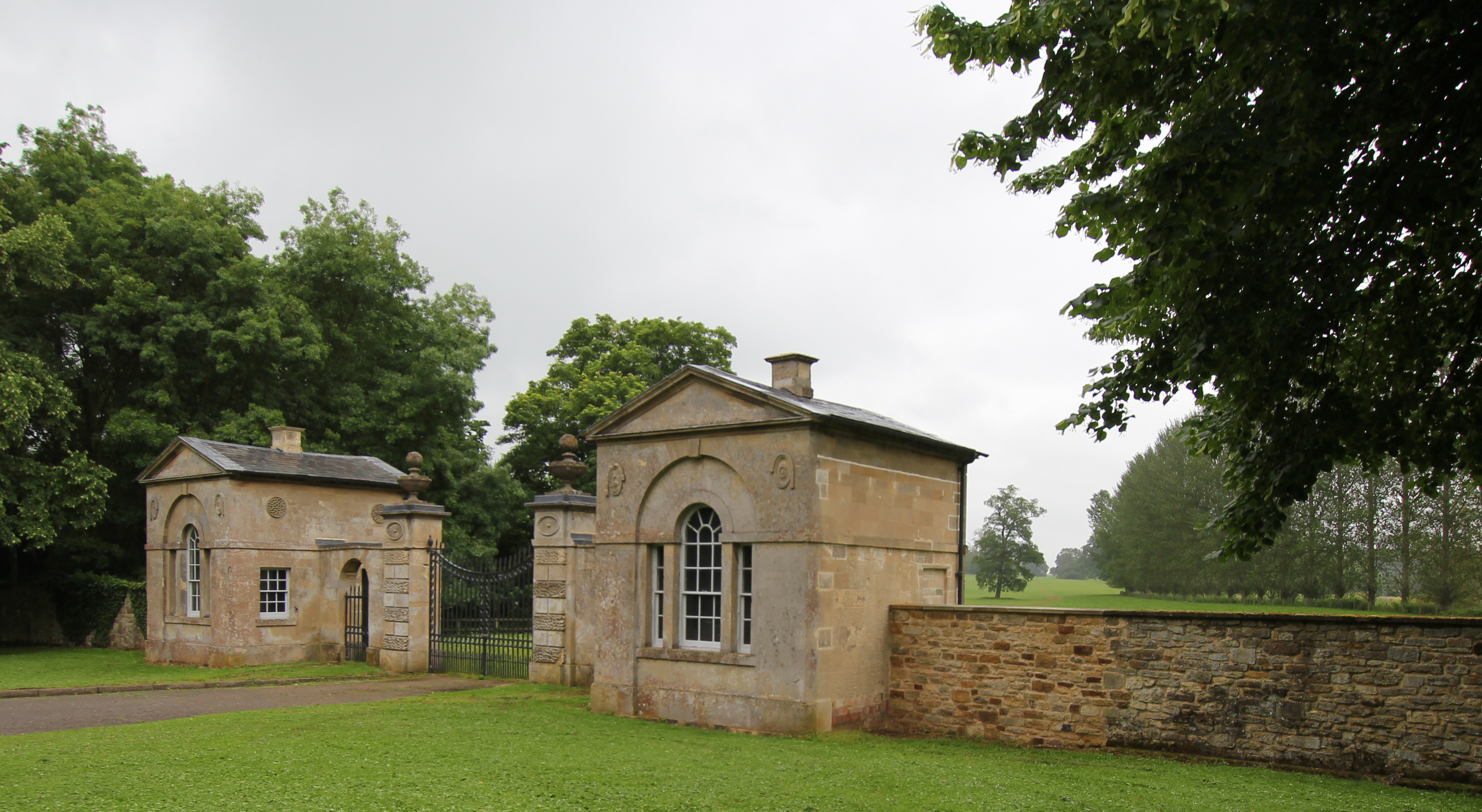 Easton Neston entrance lodges off Old Towcester Road, Towcester, Northamptonshire, England with estate running along the tree-lined River Tove visible in the background.